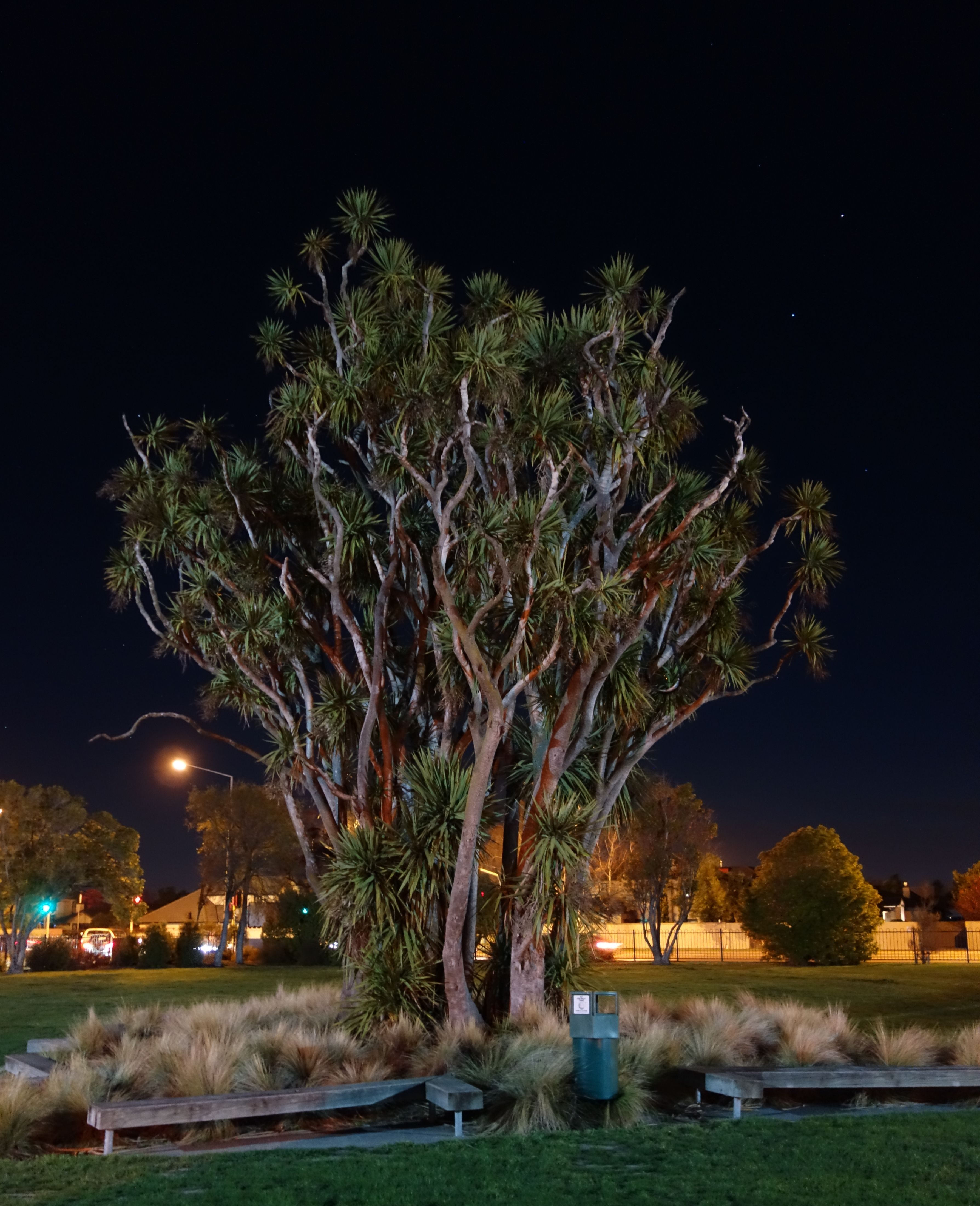 Night photo of the cabbage tree on the grounds of Burnside High School.